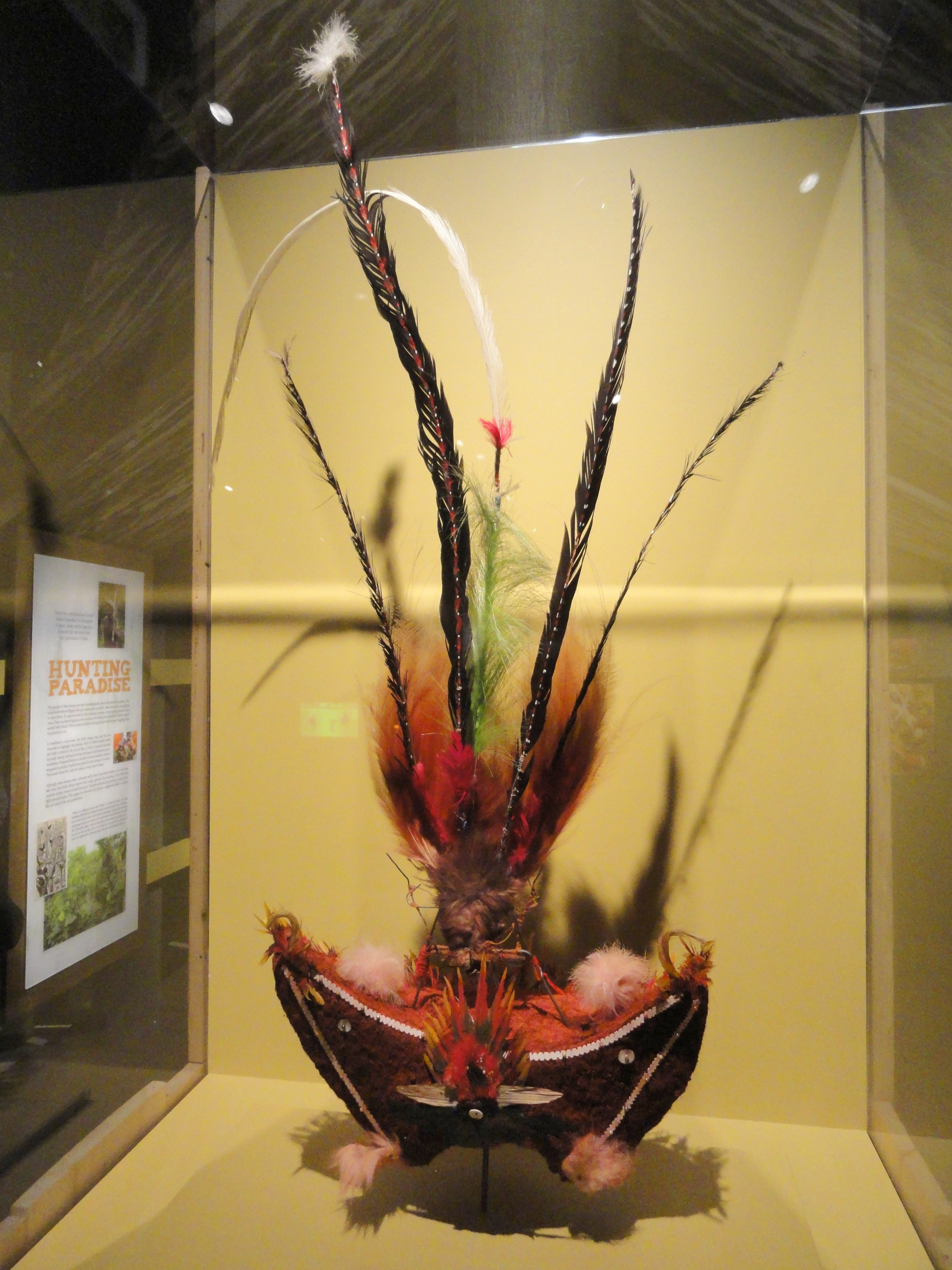 Exhibit in National Geographic Museum, 1145 17th Street, NW, Washington, DC, USA.